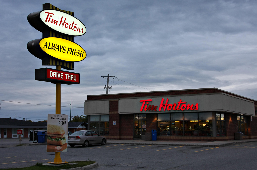 We had our sights on the Ontario Northland Railway's Northlander and Polar Bear Express trains, but spent more time in line at Tim Hortons than we could have imagined. This is in Cochrane, Ont. boyhood home of Tim Horton.